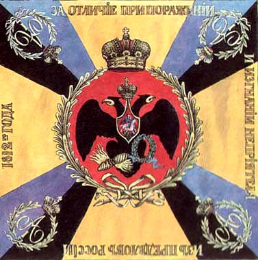 Standard of the Life Guard Grenadier Regiment